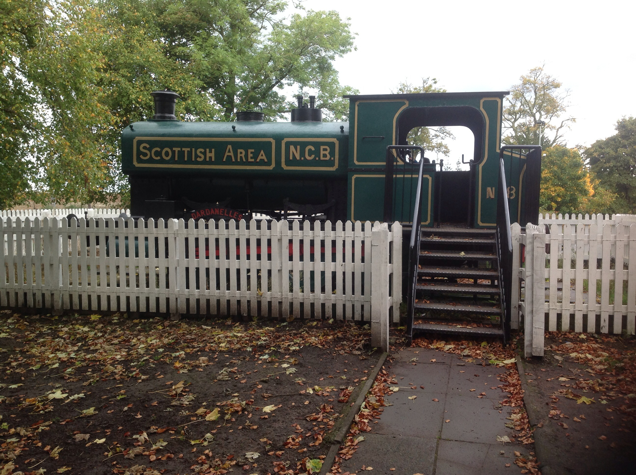 Newly painted NCB Locomotive at Polkemmet Country Park. Find the set on Flickr